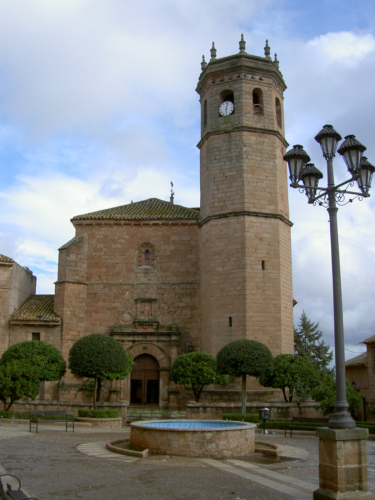 View of the San Mateo Church, in Baños de la Encina